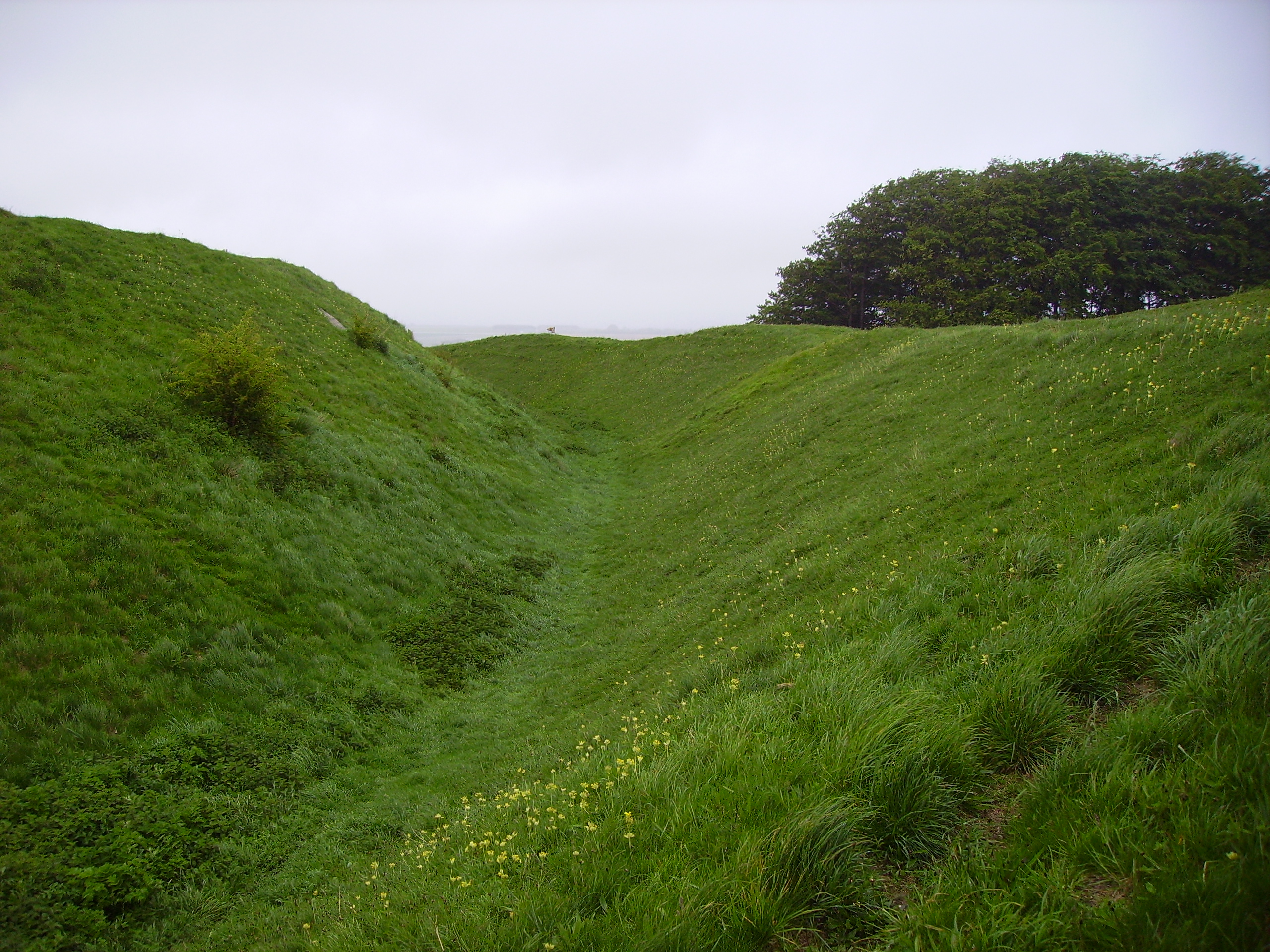 Photographer: User:Ballista